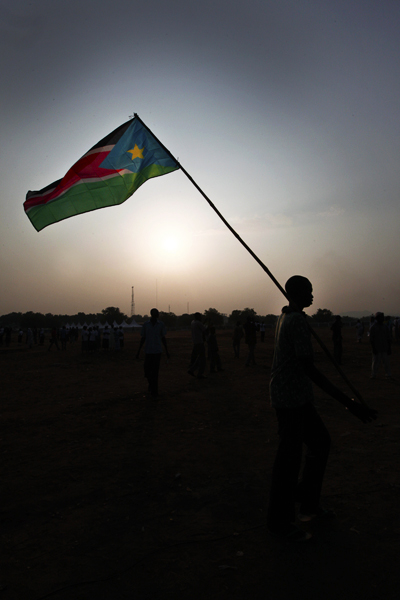 Out of Darkness into Light South Sudan Independence 9 July 2011 Juba, South Sudan